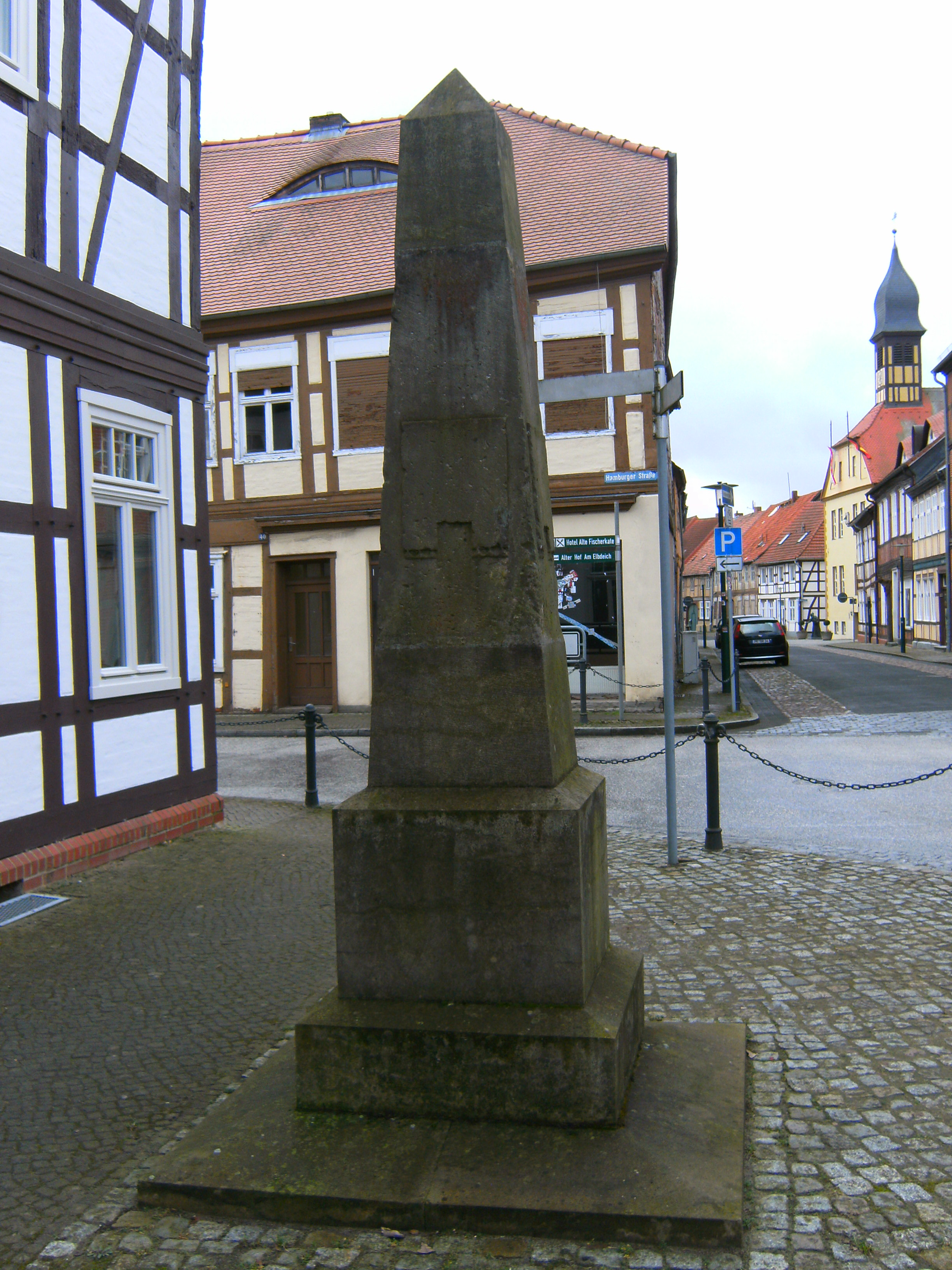 Lenzen (Elbe), Germany: Prussian milestone of 1803/04 for postal service at market place.